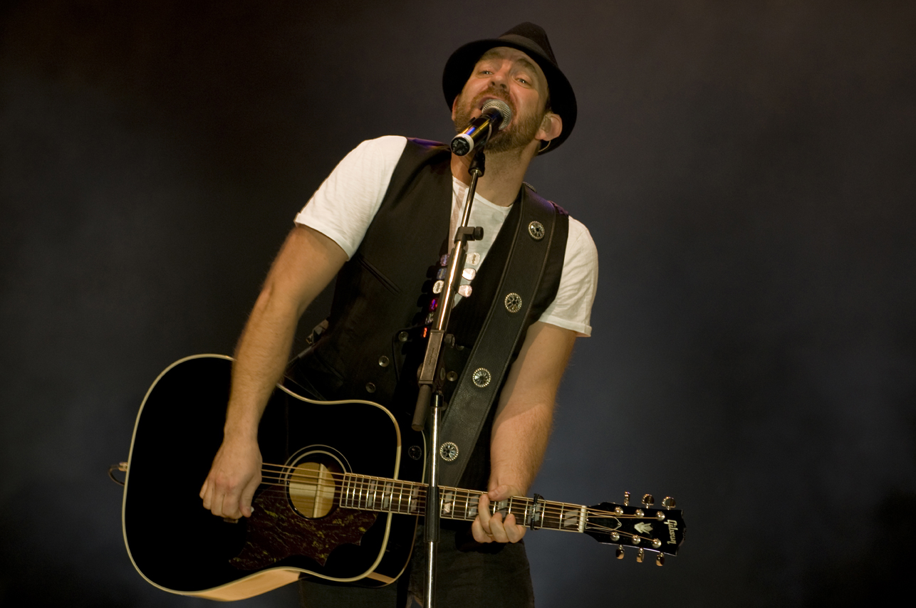 Kristian Bush, Sugarland's guitarist/vocalist, performs during a special concert March 14, 2008, Ramstein Air Base, Germany. Armed Forces, Army and Navy Entertainment groups, hosted the European tour to military bases in Italy, Germany and the Netherlands.